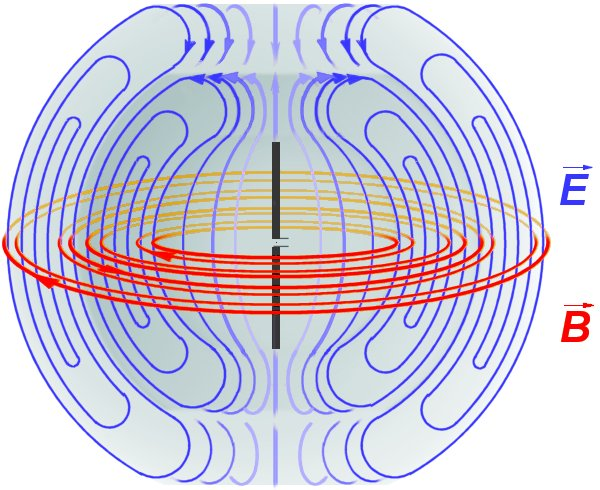 Diagram of the electric (blue) and magnetic (red) fields surrounding a dipole antenna radiating a radio wave.